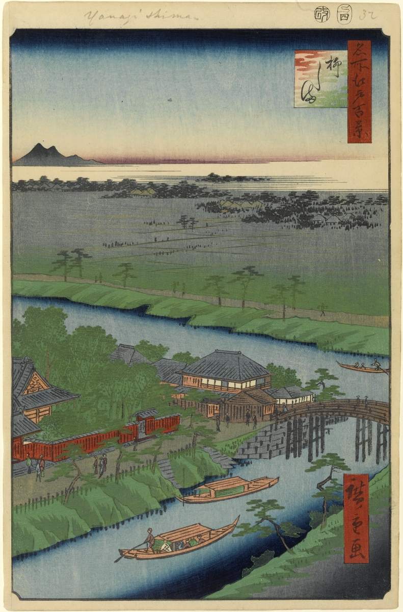 Part of the series One Hundred Famous Views of Edo, no. 032, part 1: Spring.